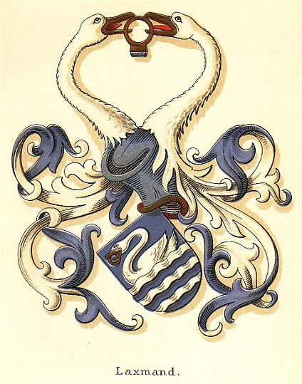 Coat of arms of the Laxmand family